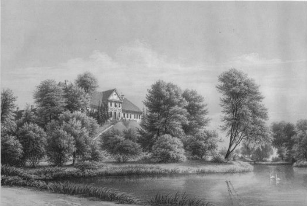 Lithography of Tybjerggaard at Næstved, Denmark